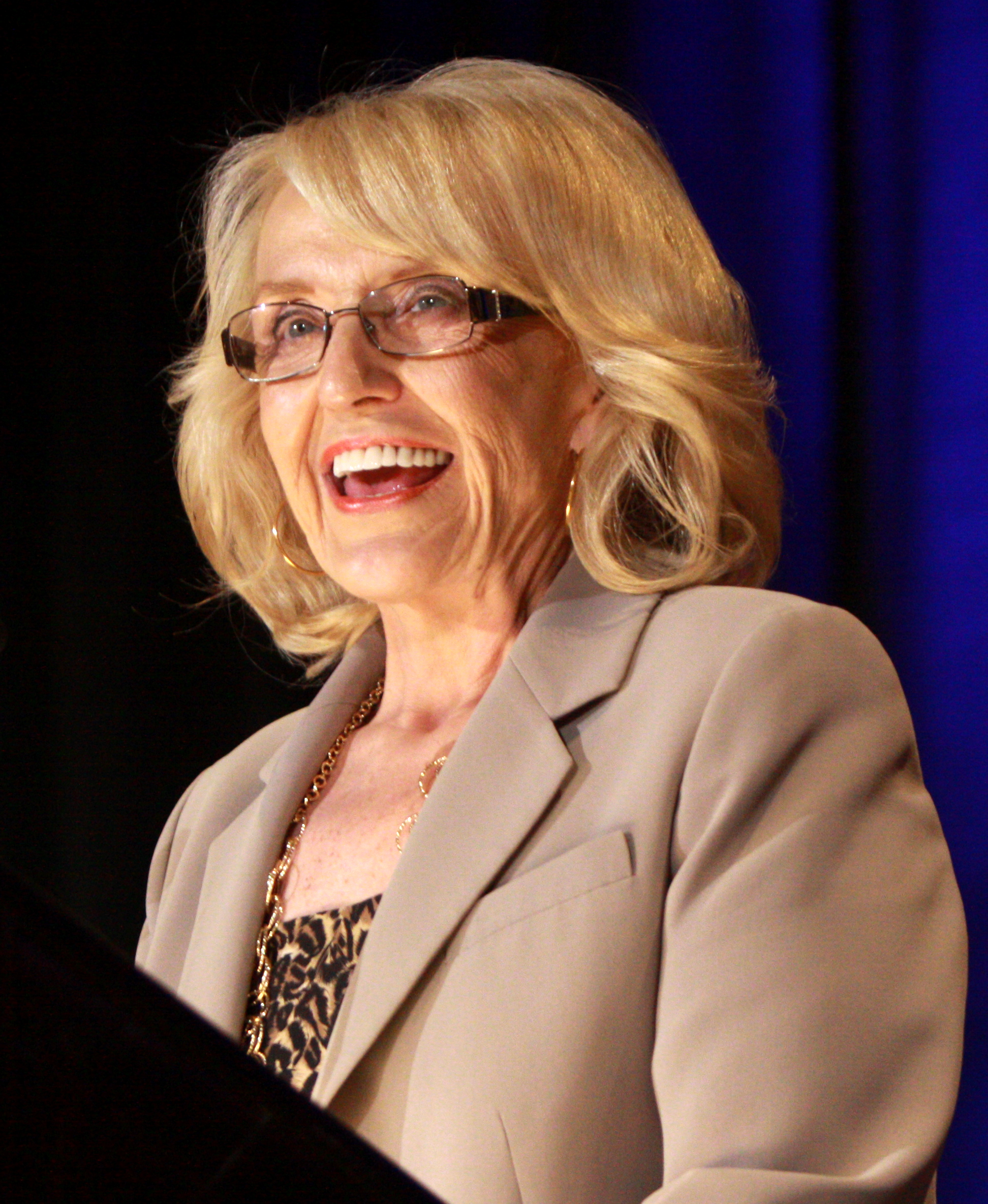 Jan Brewer speaking at an event in Phoenix, Arizona.